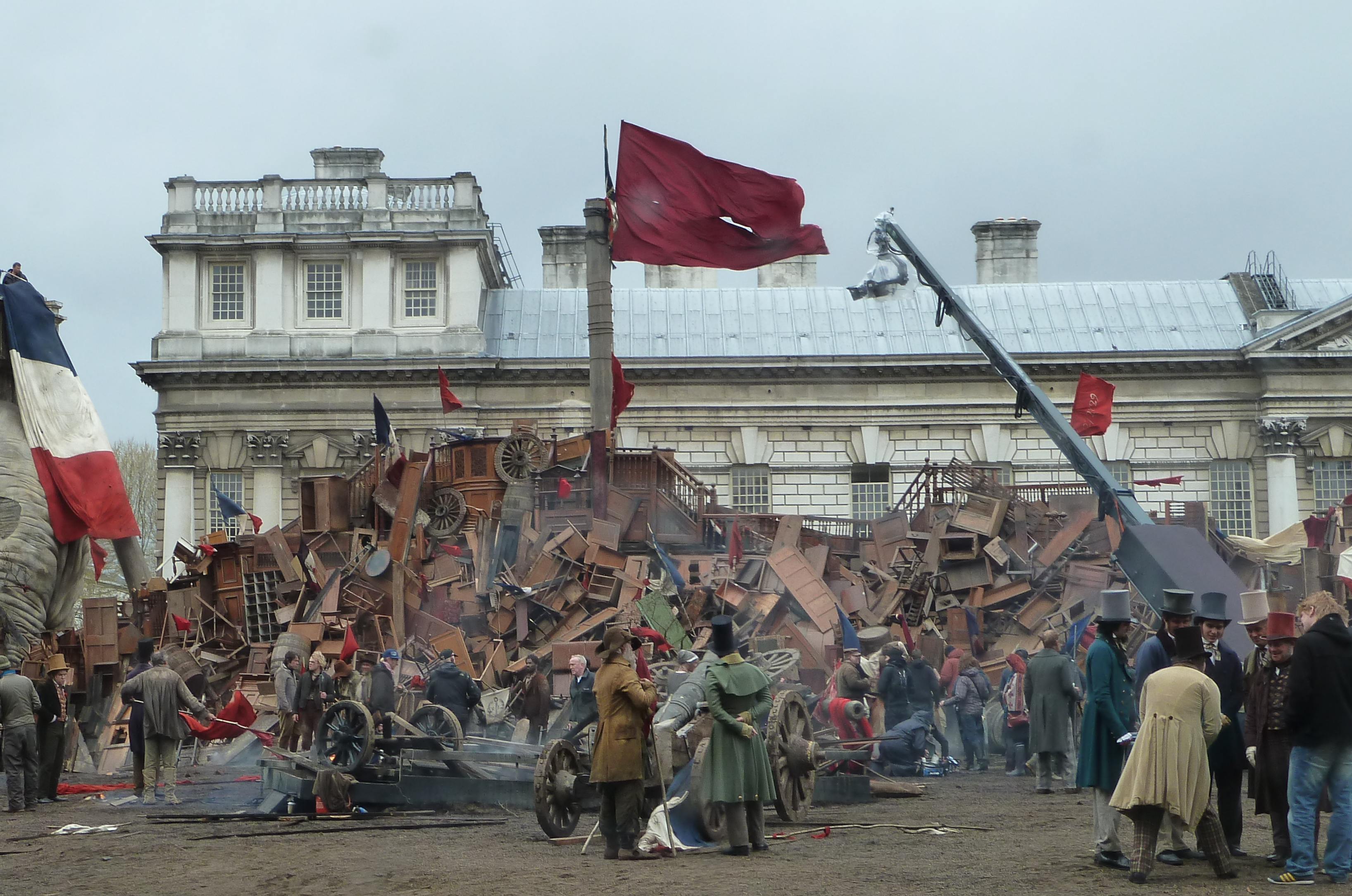 Les Miserables film set at Greenwhich: French Revolution